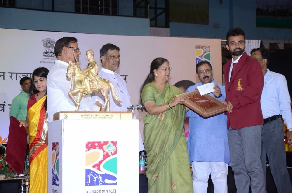 Sandeep Singh Maan receiving Maharana Pratap Award